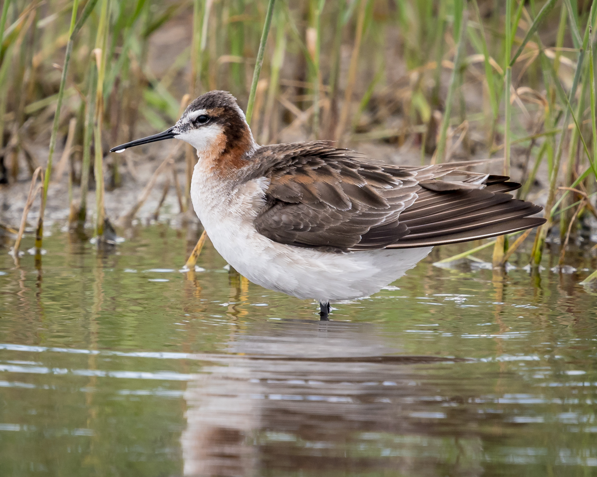 Bridgeport, California